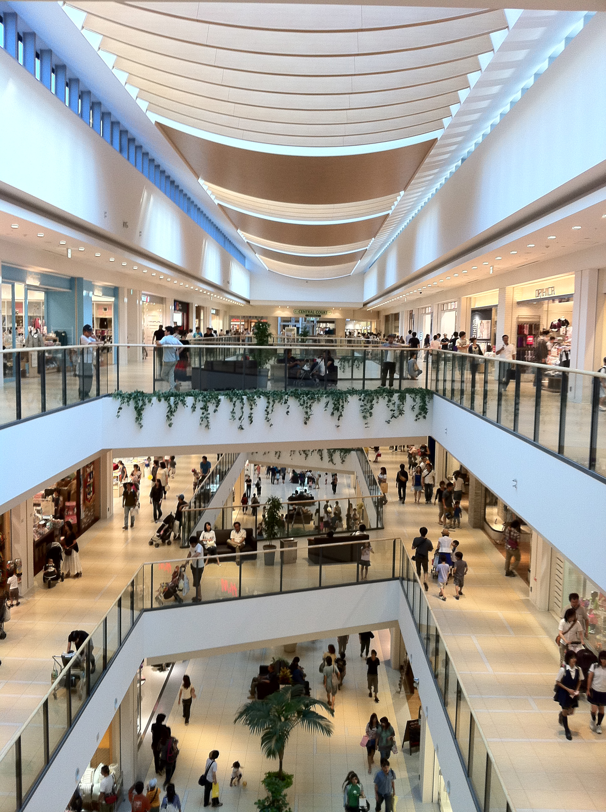 Central Court photographed from the 3rd floor in LaLaport Yokohama in Japan.